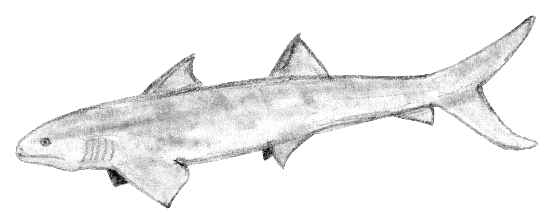 Life restoration of Ctenacanthus References Kuhn-Schnyder, Emil; Rieber, Hans (1986) Handbook of Paleozoology. John Hopkins University Press. (pg. 174)